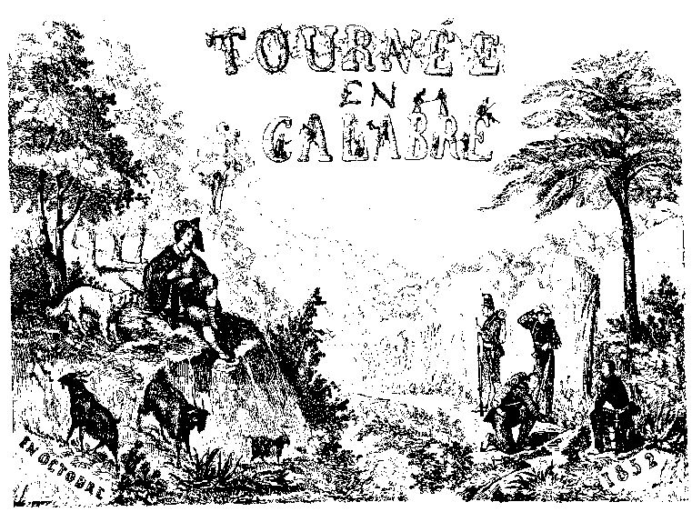 Horace de Rilliet (1824-1854), Colonne mobile en Calabre dans d'annee 1852, Tournée en Calabre, par M. H. Rilliet Geneve : Imp. Pilet & Corignard, 1852. Cosenza : Casa del libro G. Brenner, 1962